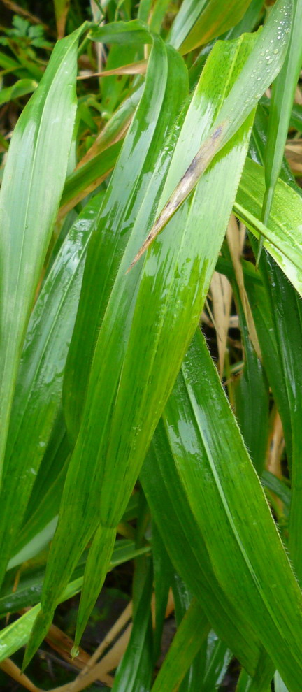 Brachypodium sylvaticum. In Collserola, Catalonia (see Collserola. I made the photograph on february 3rd 2007.